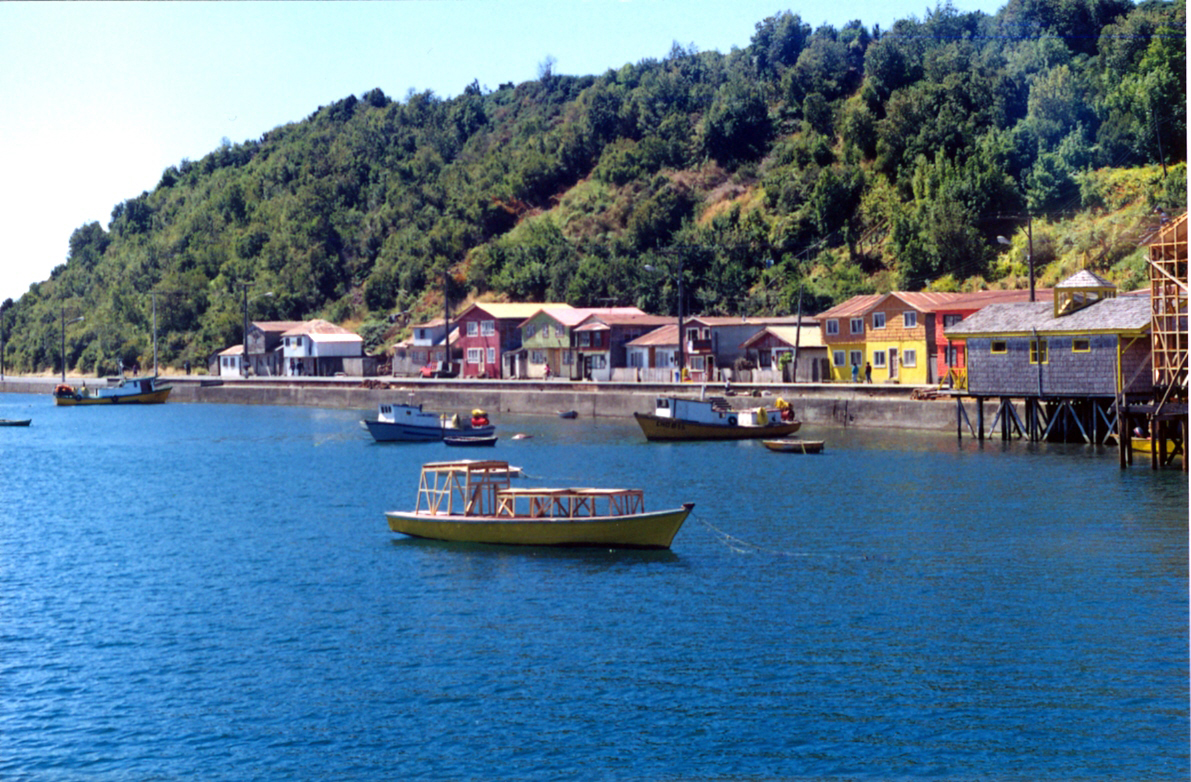 Queilen, Chile.